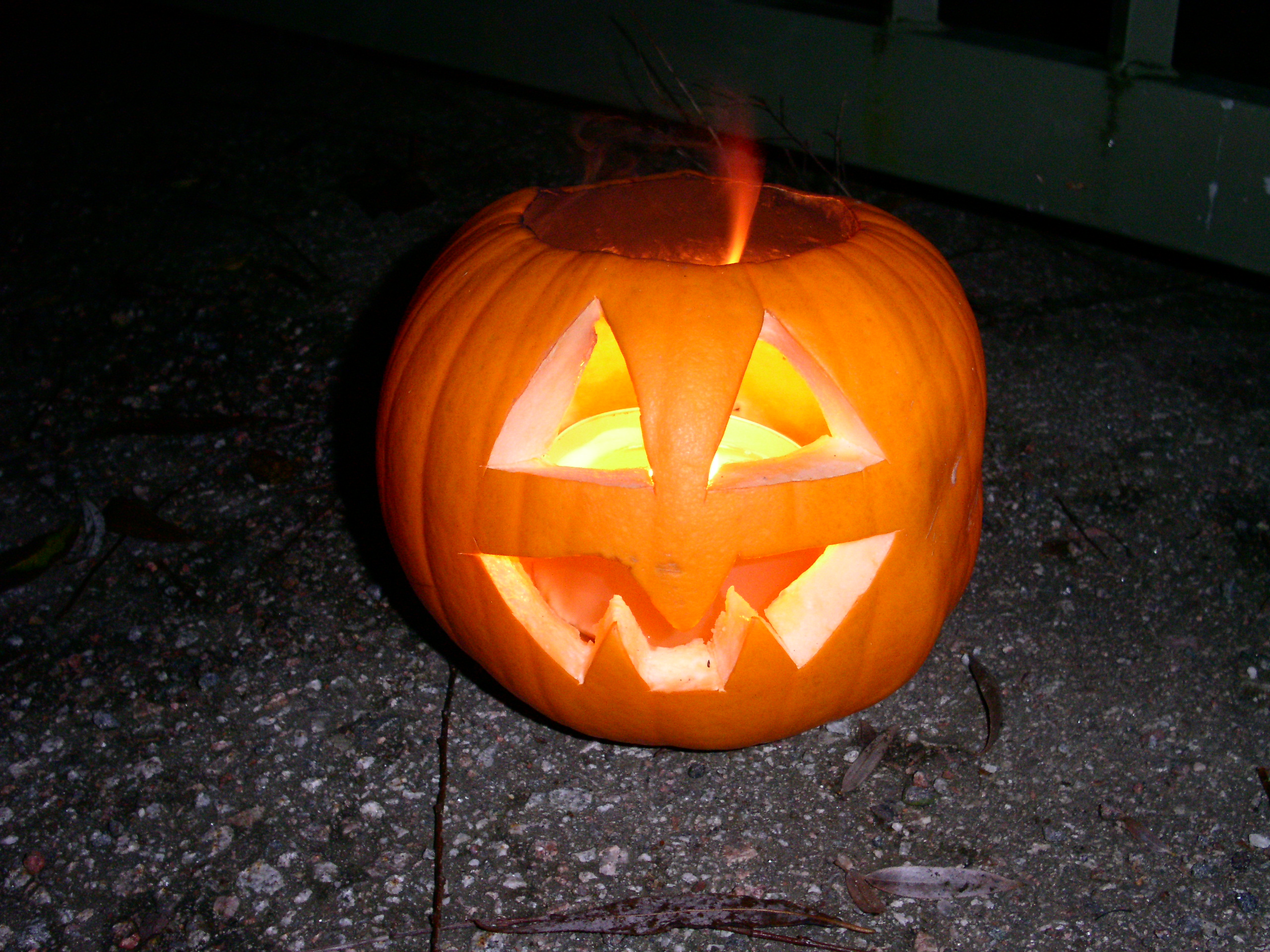 Jack O'Latern from Sweden